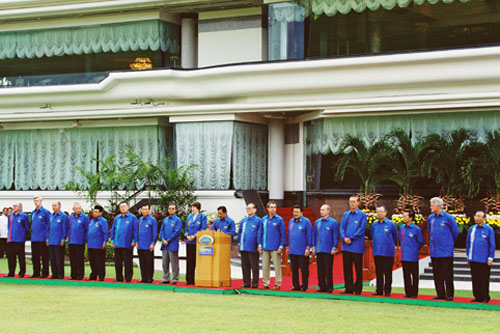 BANDAR SERI BEGAWAN, BRUNEI. The reading of the declaration on the results of the Asia-Pacific Economic Cooperation (APEC) forum.